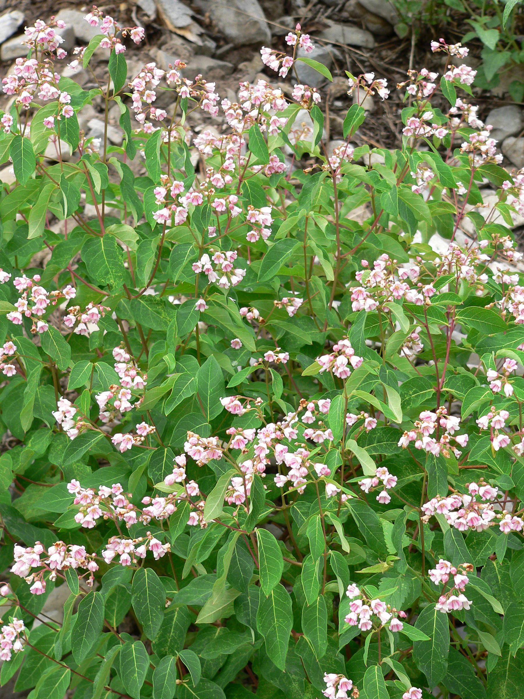 Apocynum androsaemifolium var. androsaemifolium alongside the first part of the South Loop trail, Kyle Canyon, Spring Mountains, southern Nevada (elev. about 2400 m)